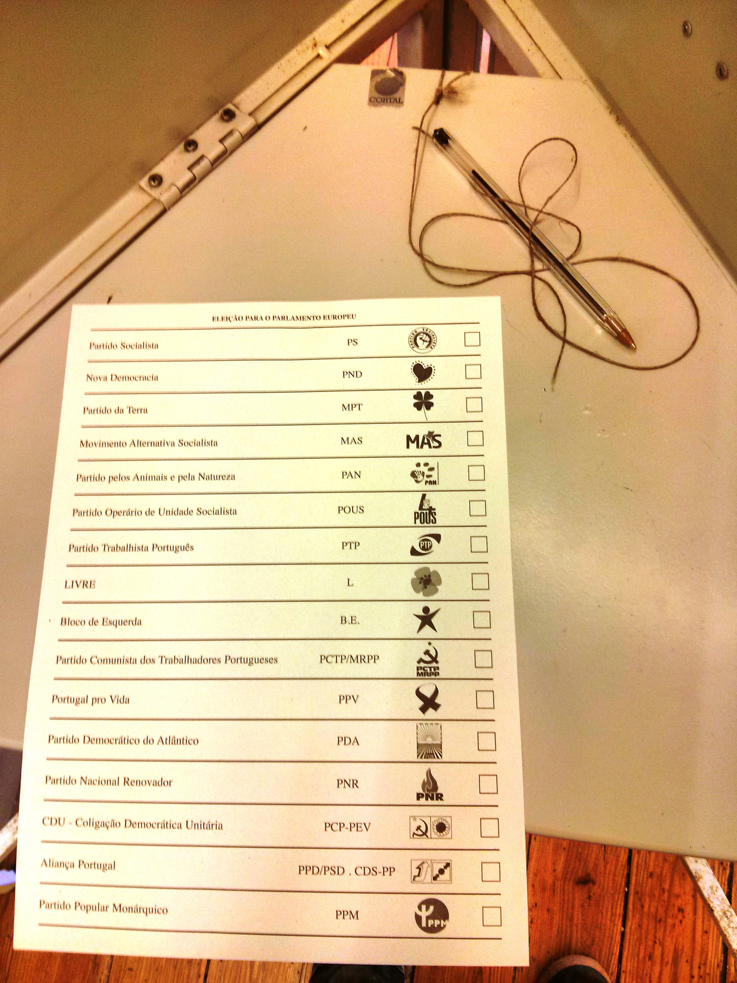 Ballot paper in Portugal of the European Parliament Elections 2014